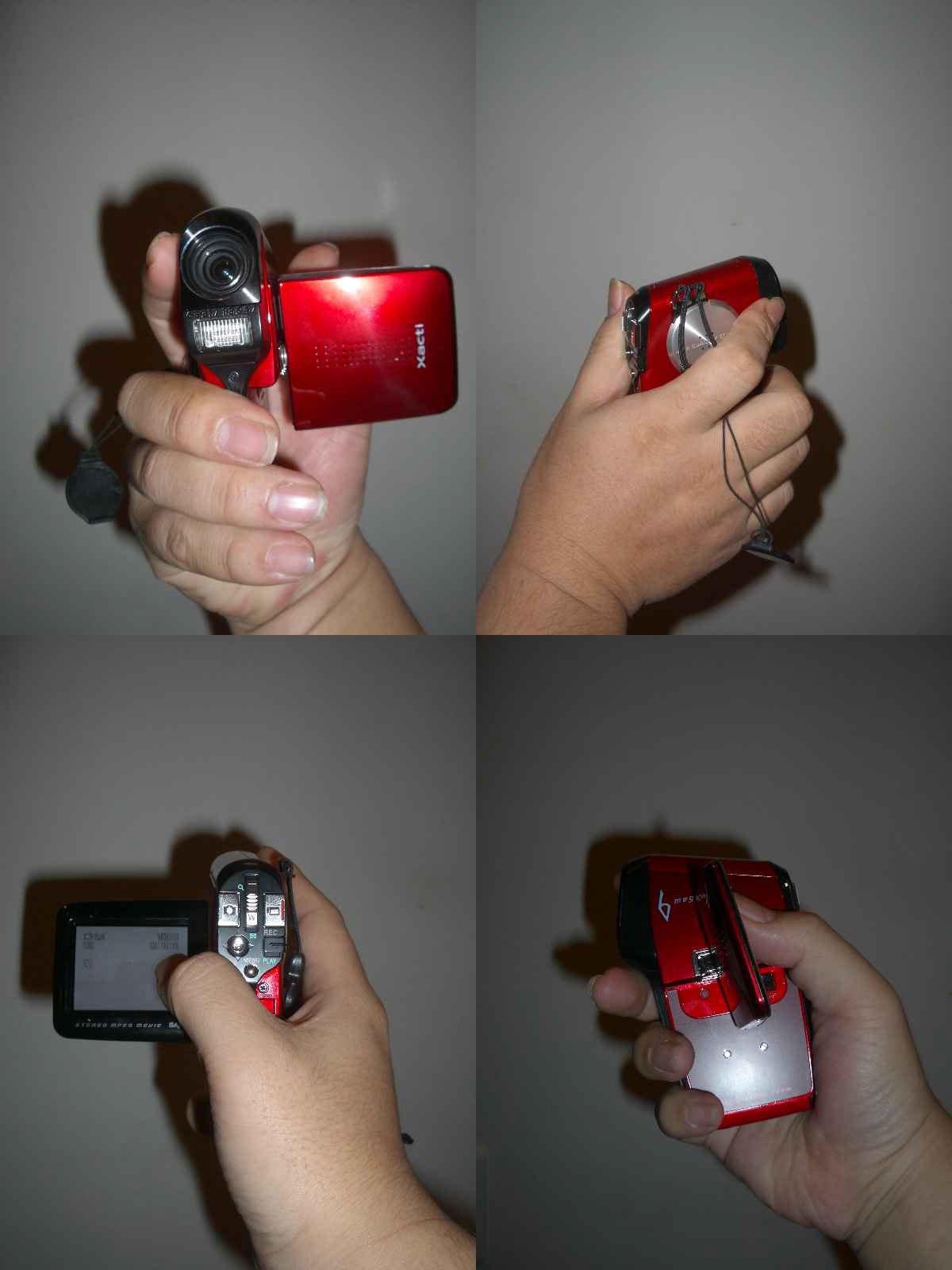 Photos of Xacti DMX-C6, a digital camera by Sanyo, from multiple viewpoints.